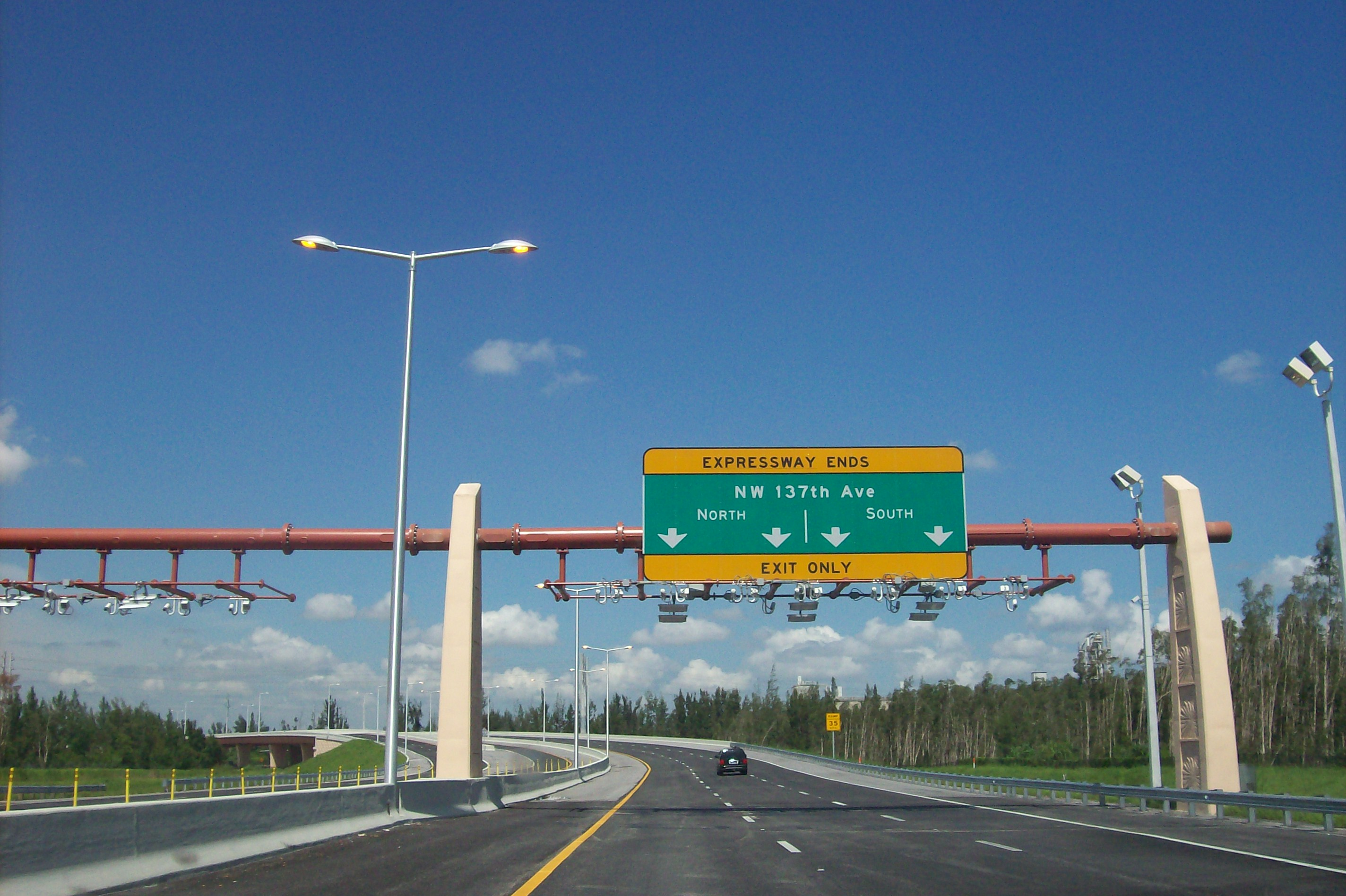 The signage before the end of the new westbound State Road 836 extension.